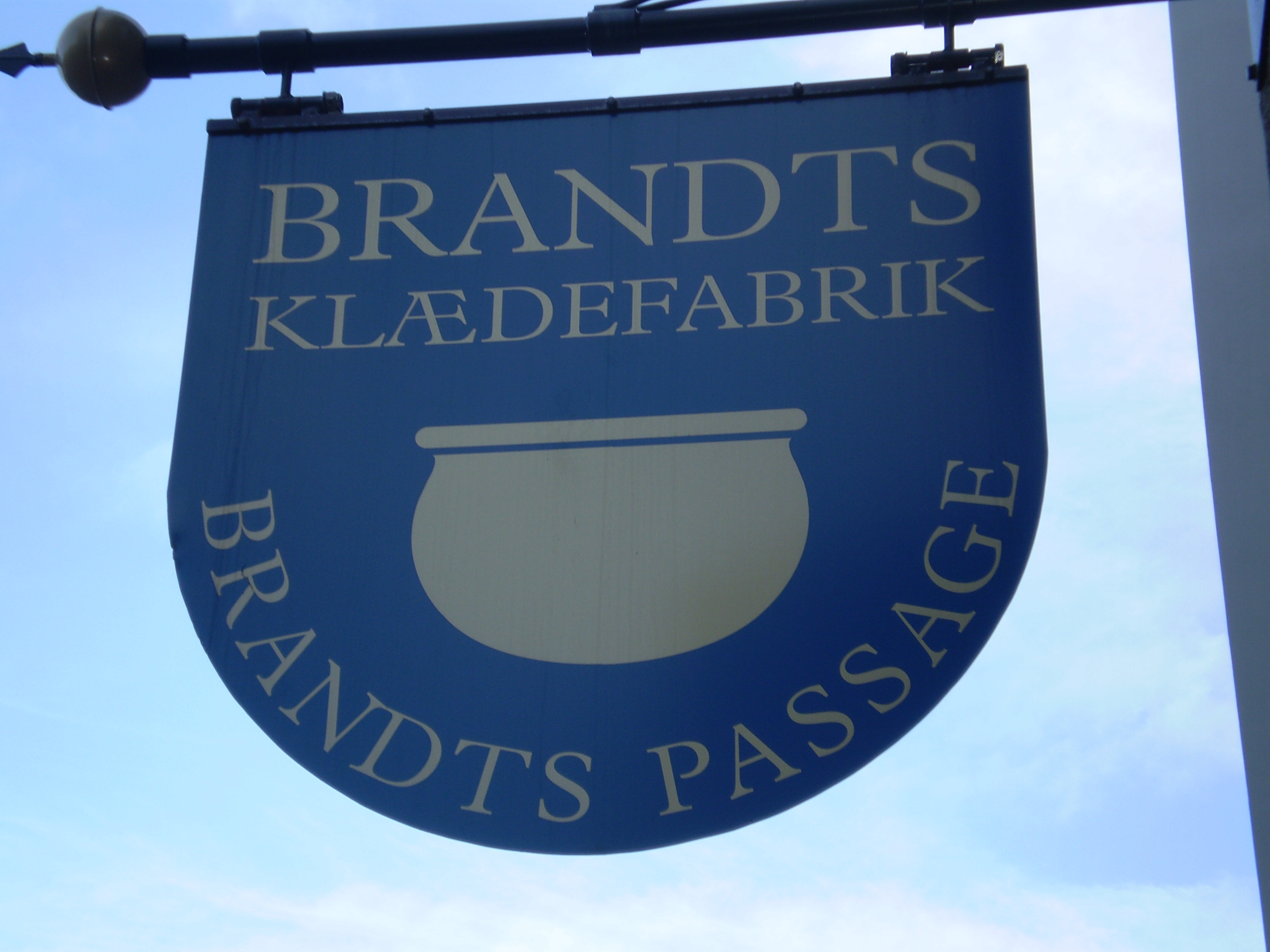 Brandts Passage Entrance of Brandts Klædefabrik, the art and cultural centre of Odense.